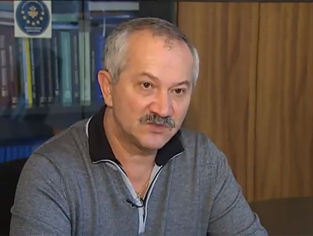 Viktor Pynzenyk, Ukrainian politician, member of the Ukrainian Verkhovna Rada